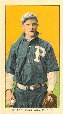 1910 Obak baseball card of Gene Krapp.